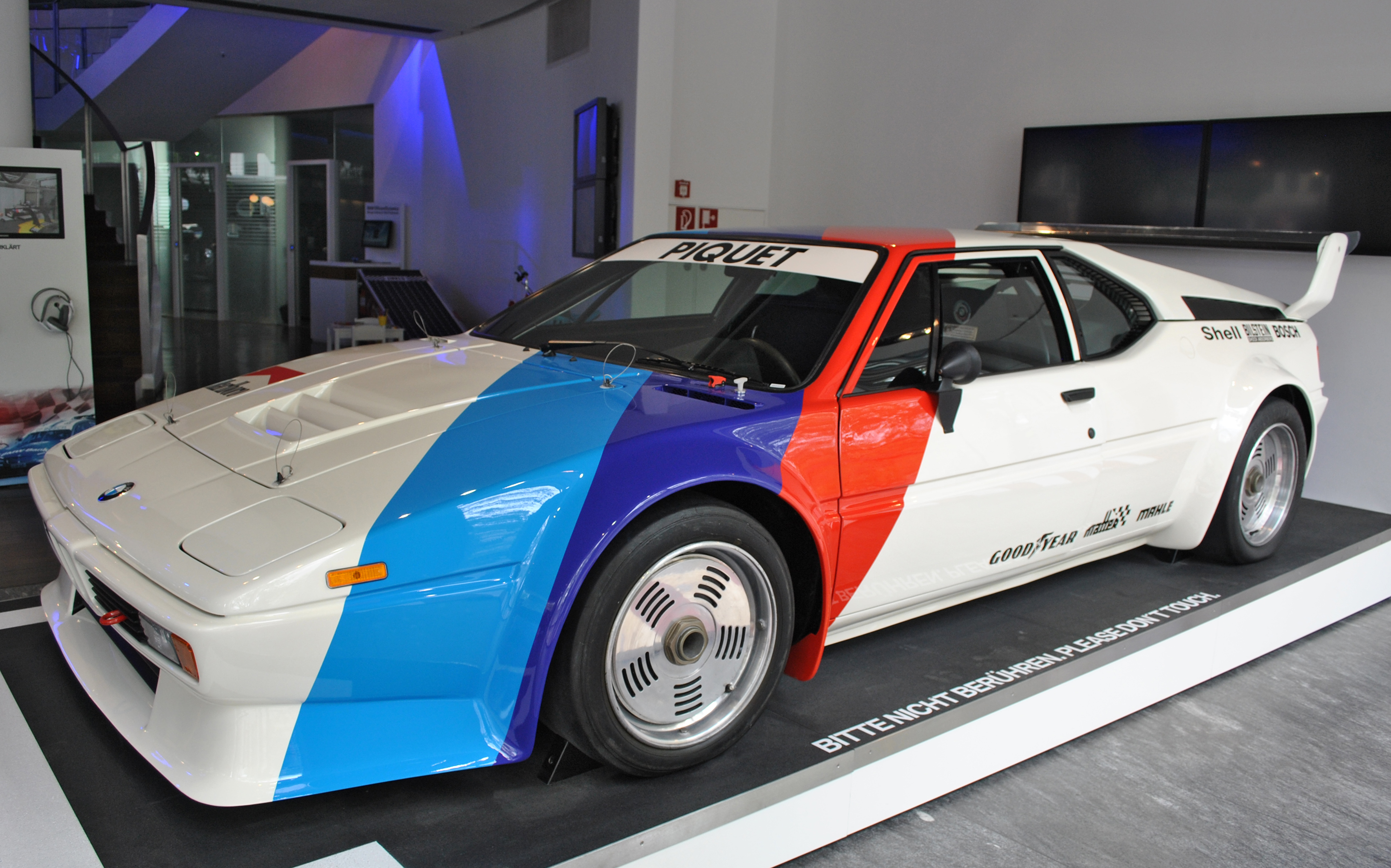 BMW M1 Procar of Nelson Piquet, BMW Kurfürstendamm, Berlin